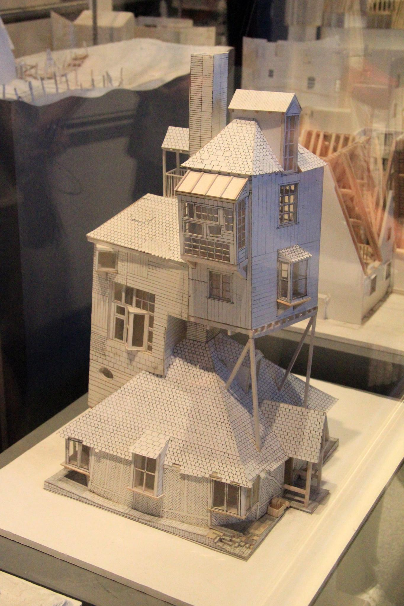 Warner Bros. Studio Tour London: The Making of Harry Potter.